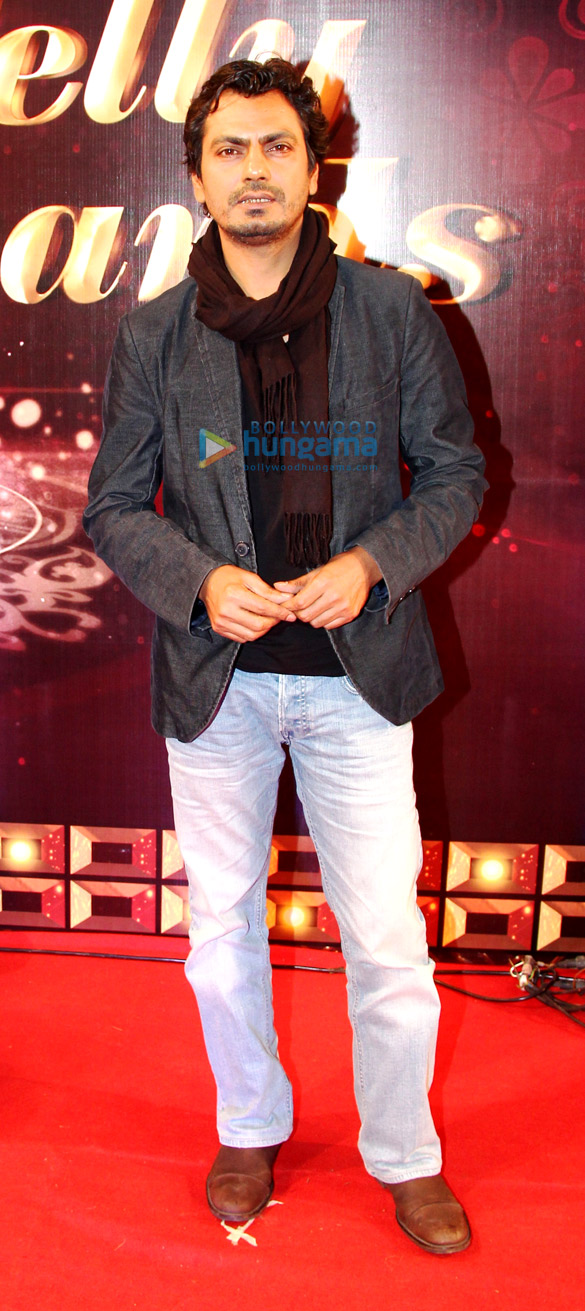 Nawazuddin Siddiqui at the 13th Indian Telly Awards 2014